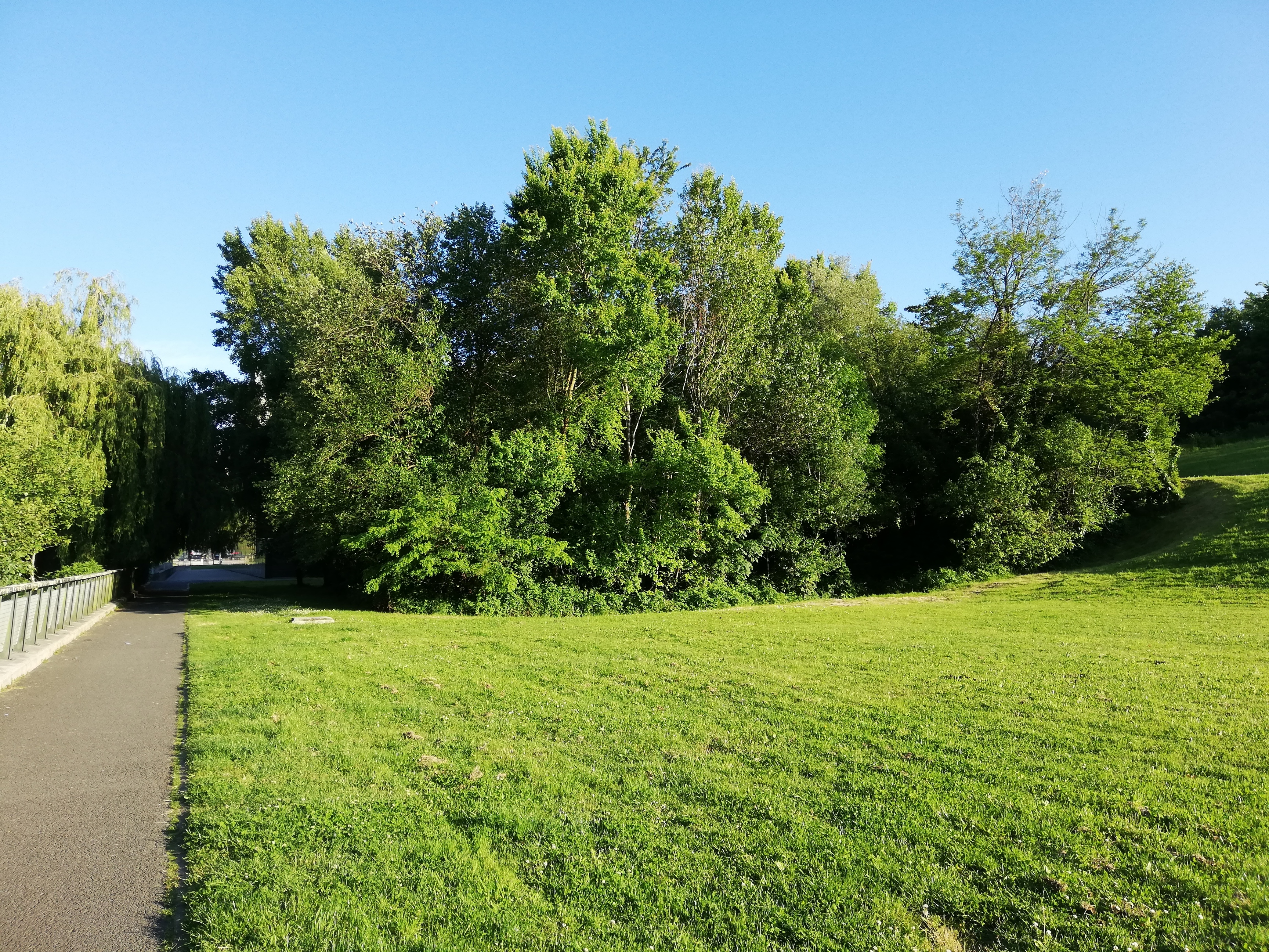 ibaeta wetlands